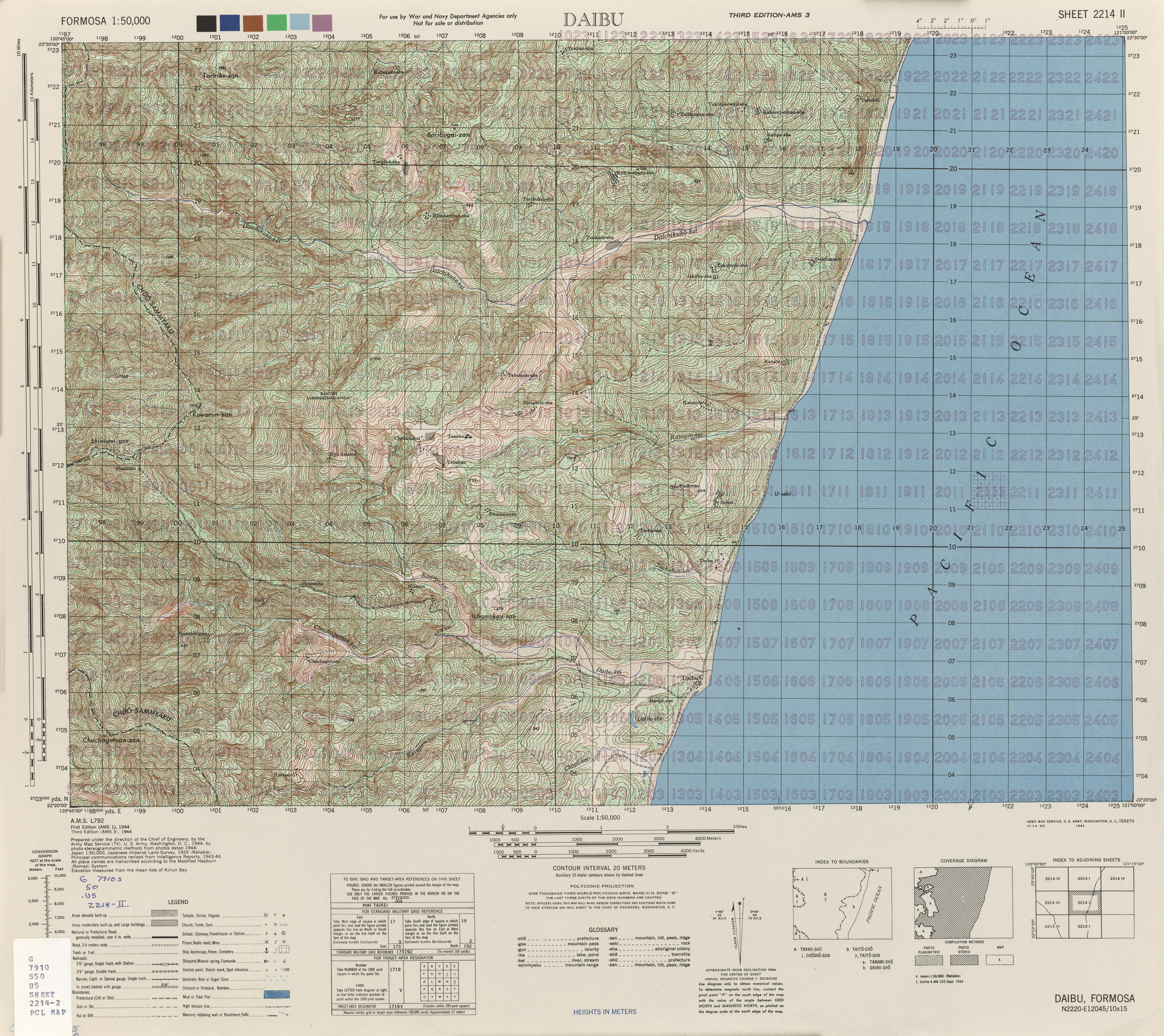 Map from Formosa (Taiwan) 1:50,000 AMS Series L792